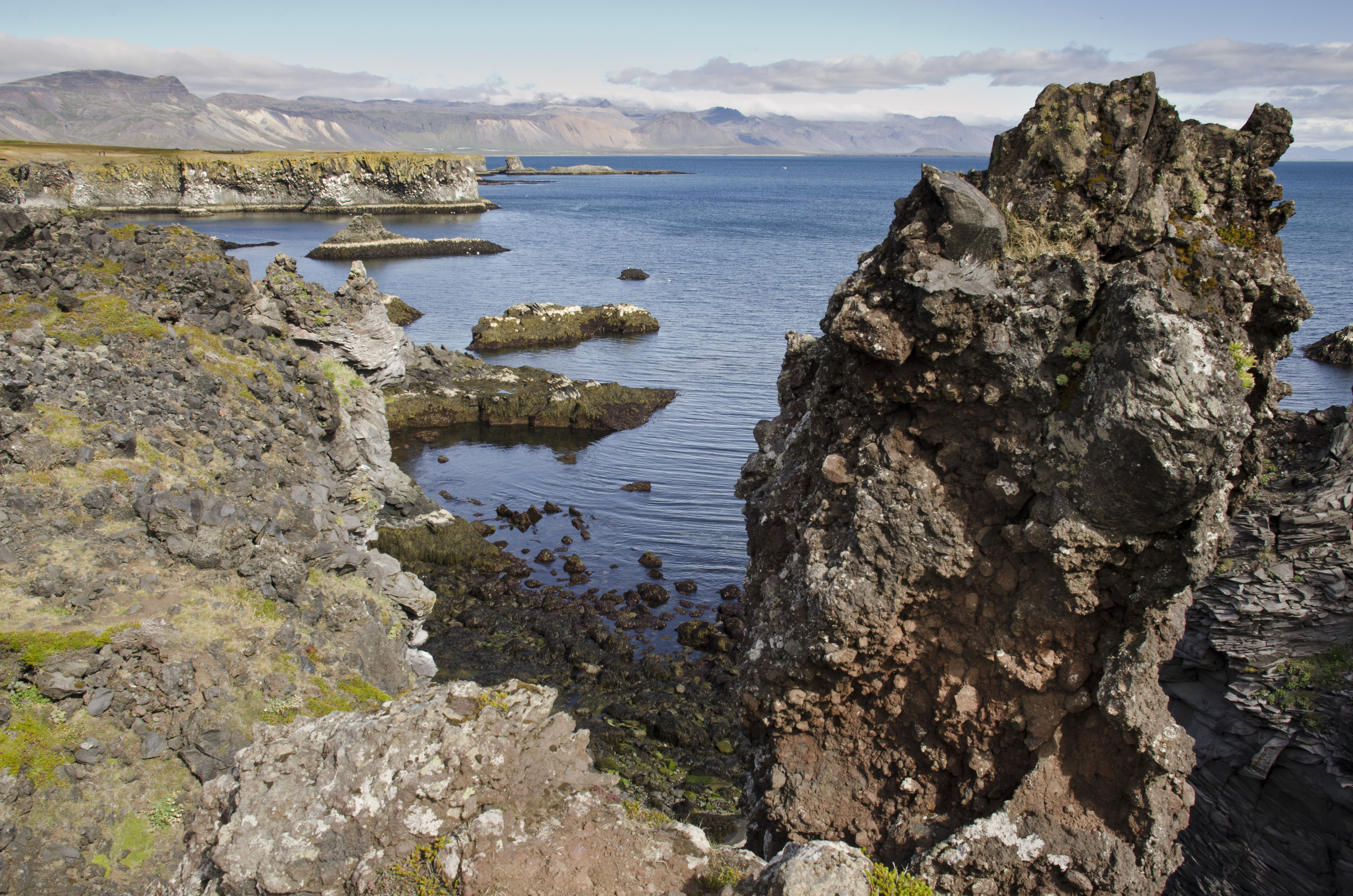 Coastline between Arnarstapi and Hellnar, Iceland